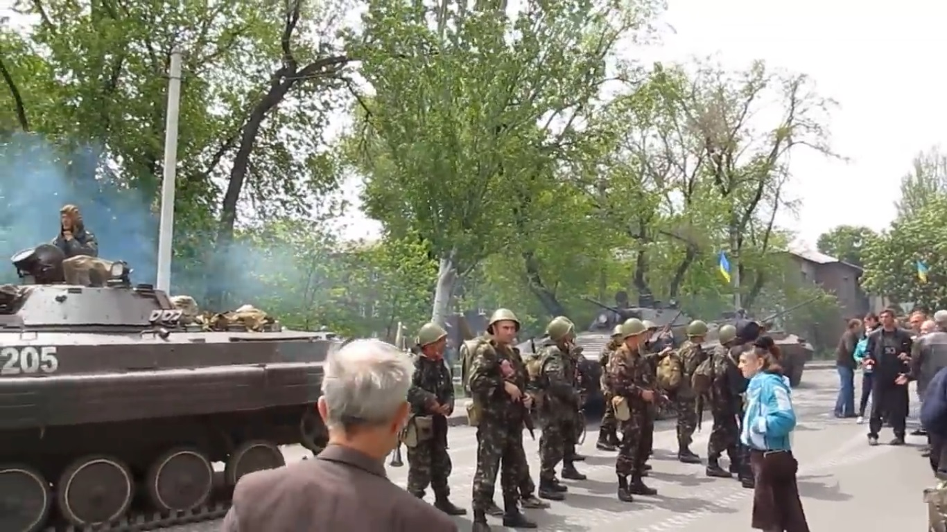 Standoff between locals and Ukrainian forces in Mariupol, 9 May 2014.